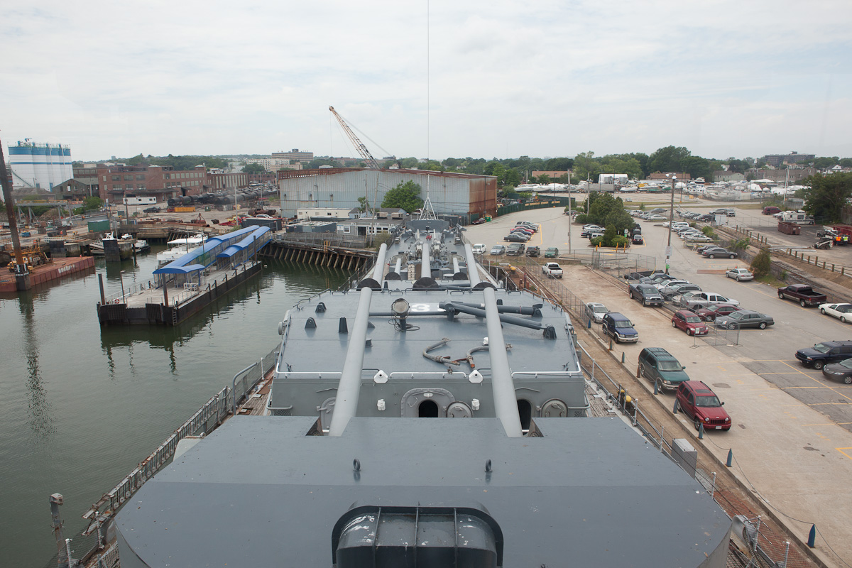 View of the bow from the bridge windows of the museum ship USS Salem (CA-139).